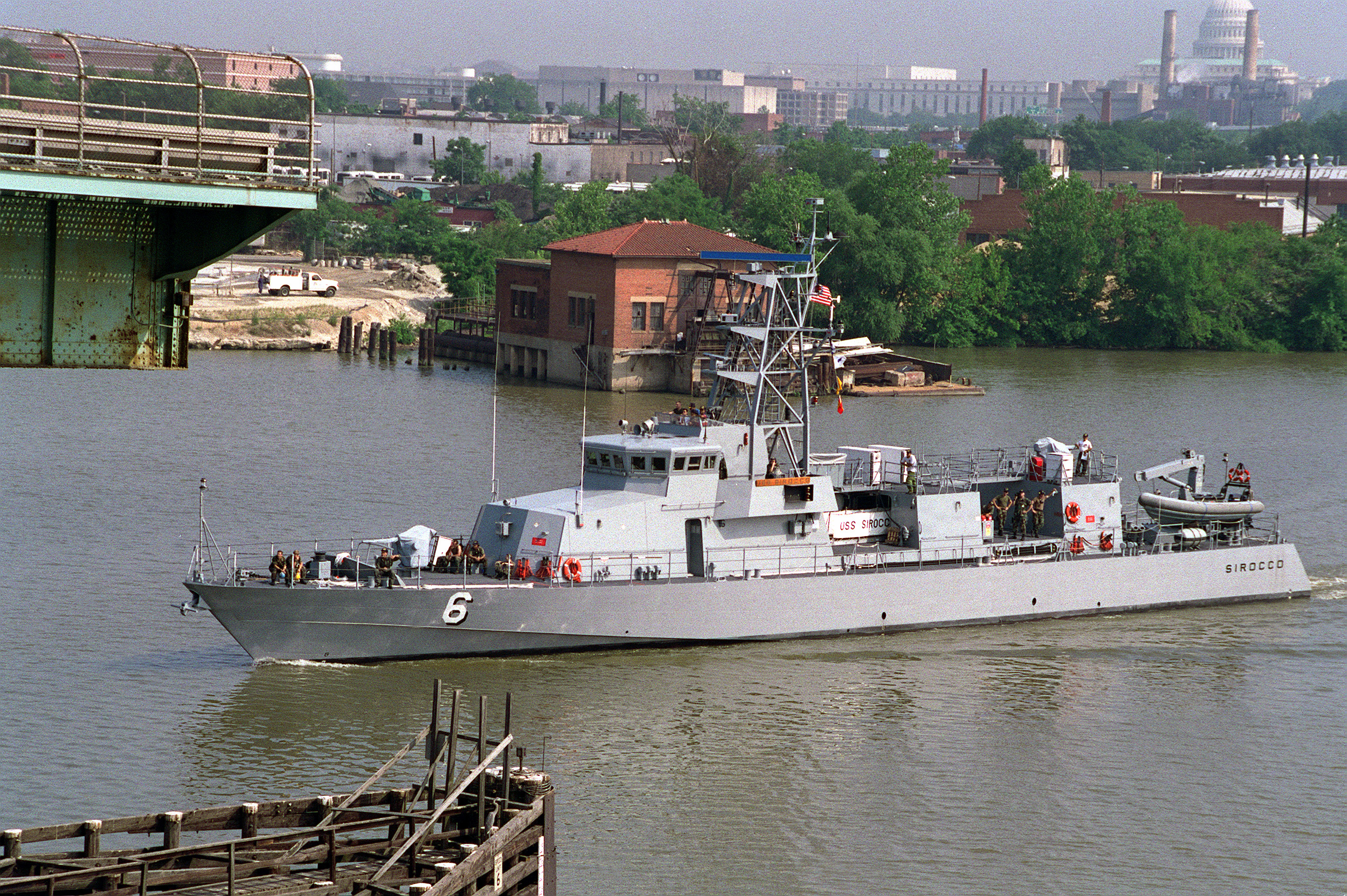 A port bow view of the newly commissioned coastal patrol boat USS SIROCCO (PC-6) as it approaches the open draw of the Frederick Douglas Memorial Bridge after departing the Washington Navy Yard en route to Norfolk, Va. Location: ANACOSTIA RIVER, DISTRICT OF COLUMBIA (DC) UNITED STATES OF AMERICA (USA)